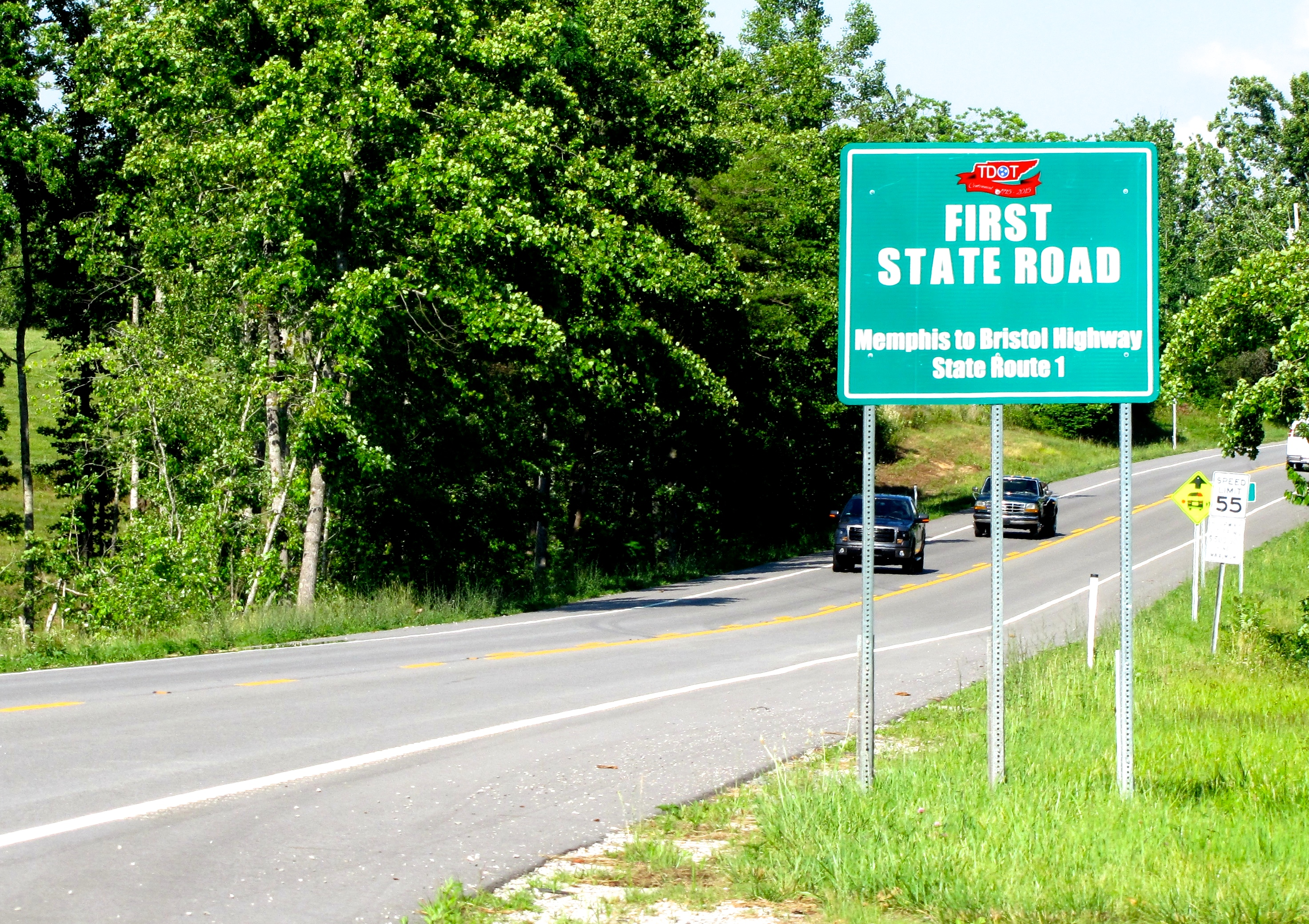 U.S. Route 70 / Tennessee State Route 1 near Pleasant Hill in Cumberland County, Tennessee, United States.